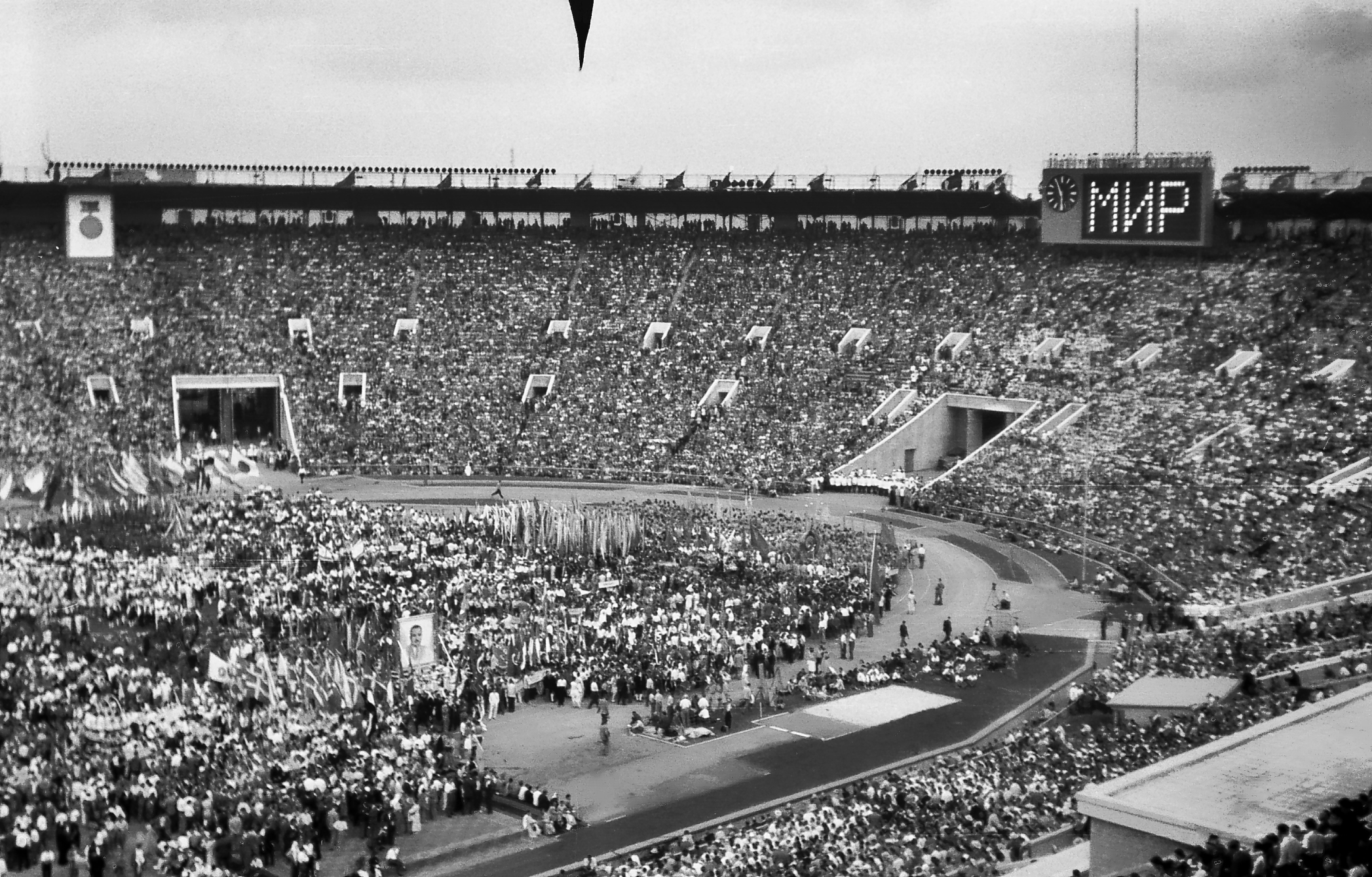 6th World Festival of Youth and Students (1957). Opening day in the Lenin-Stadium. The person on the big picture is Egypts president Nasser. - You may want to have a look at my website (in German)